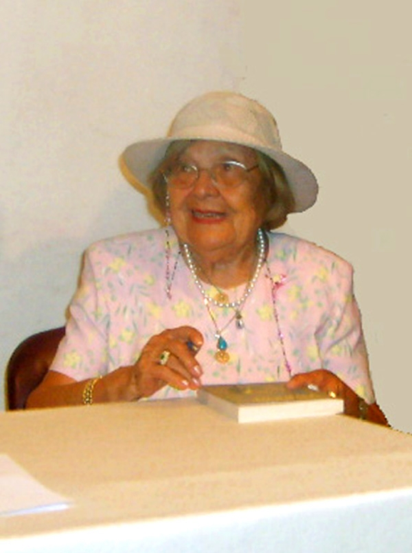 Muazzez İlmiye Çığ lecturing in Mersin